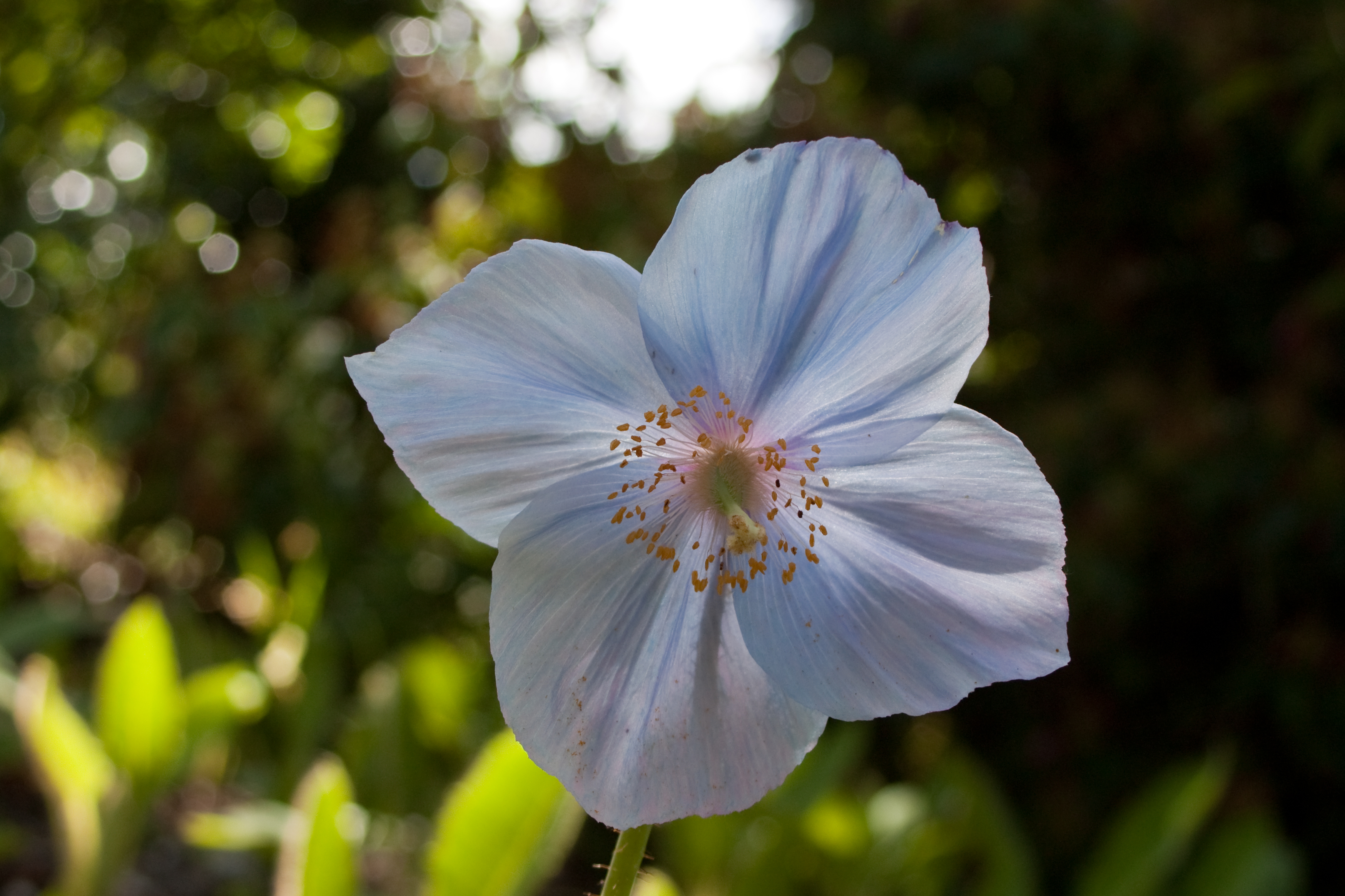 Meconopsis "Lingholm", photographed in the garden of Forde Abbey, Somerset/Dorset, UK.